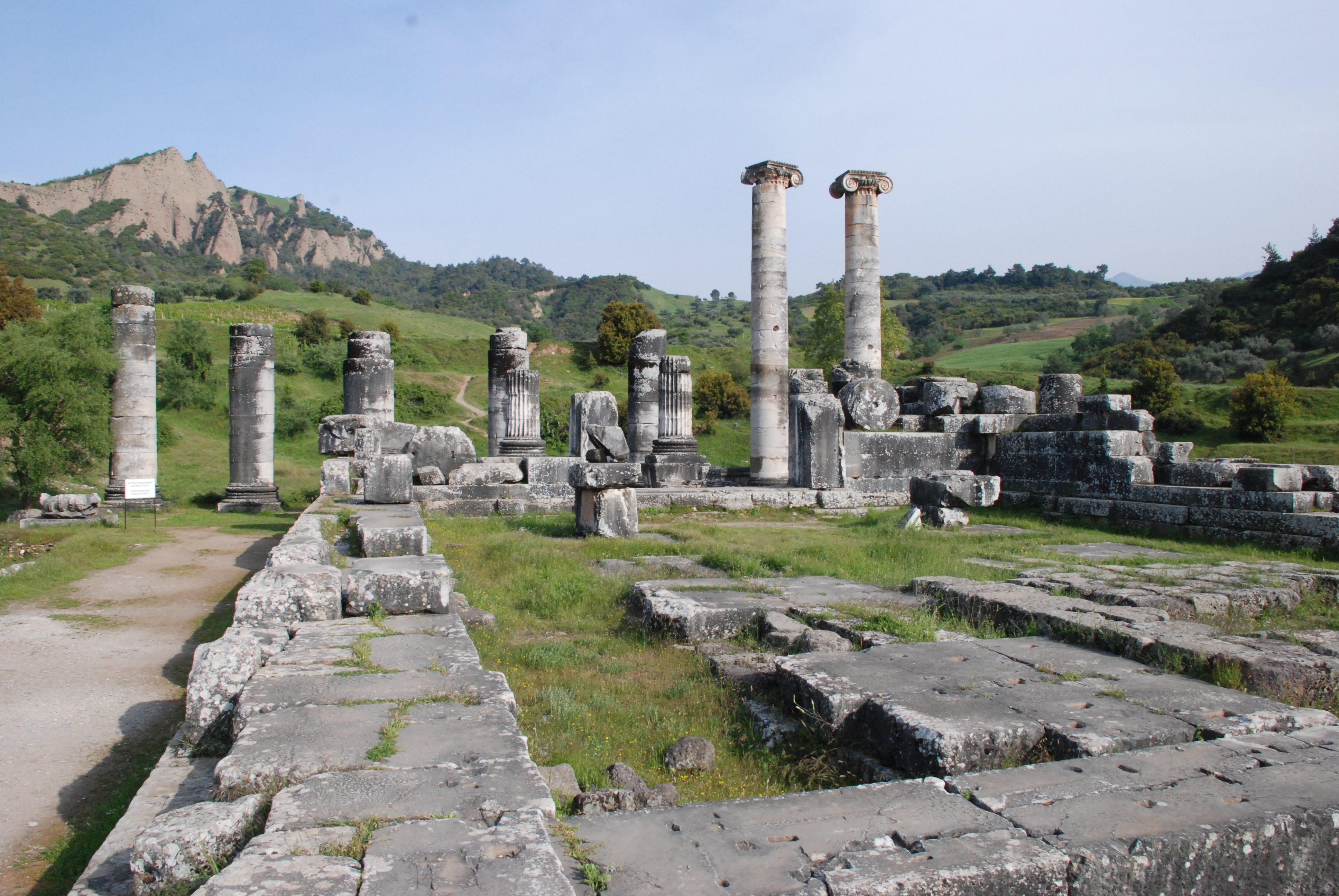 Temple of Artemis, Sart (ancient Sardis), Turkey